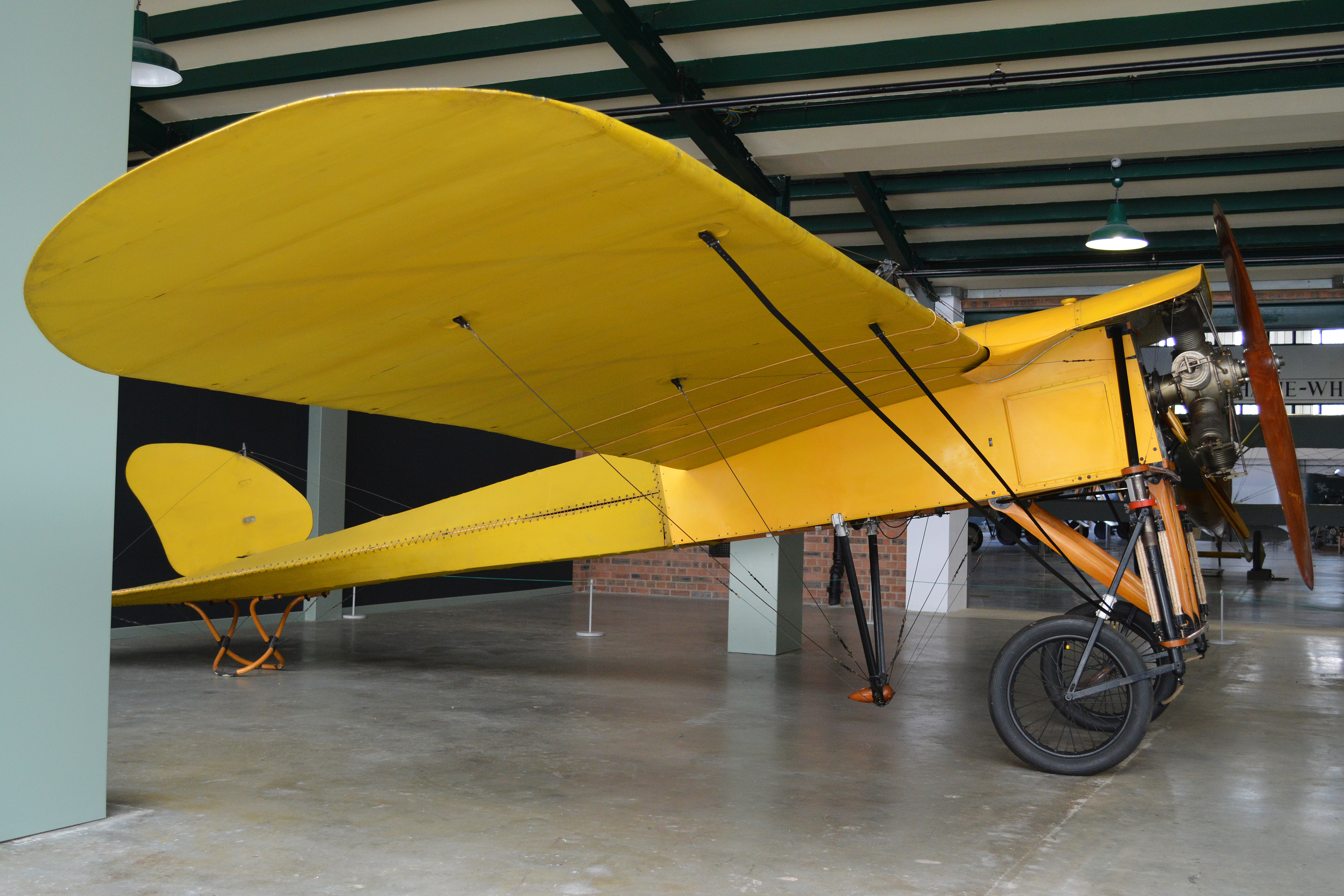 Probably built in Autumn 1911. Became part of the Nash collection in the mid 1930's. Later passed to the RAF Museum and allocated No BAPC107 by the Britsh Aircraft Preservation Council. c/n 433. On display in the Grahame-White Factory, RAF Museum, Hendon. 14-3-2013